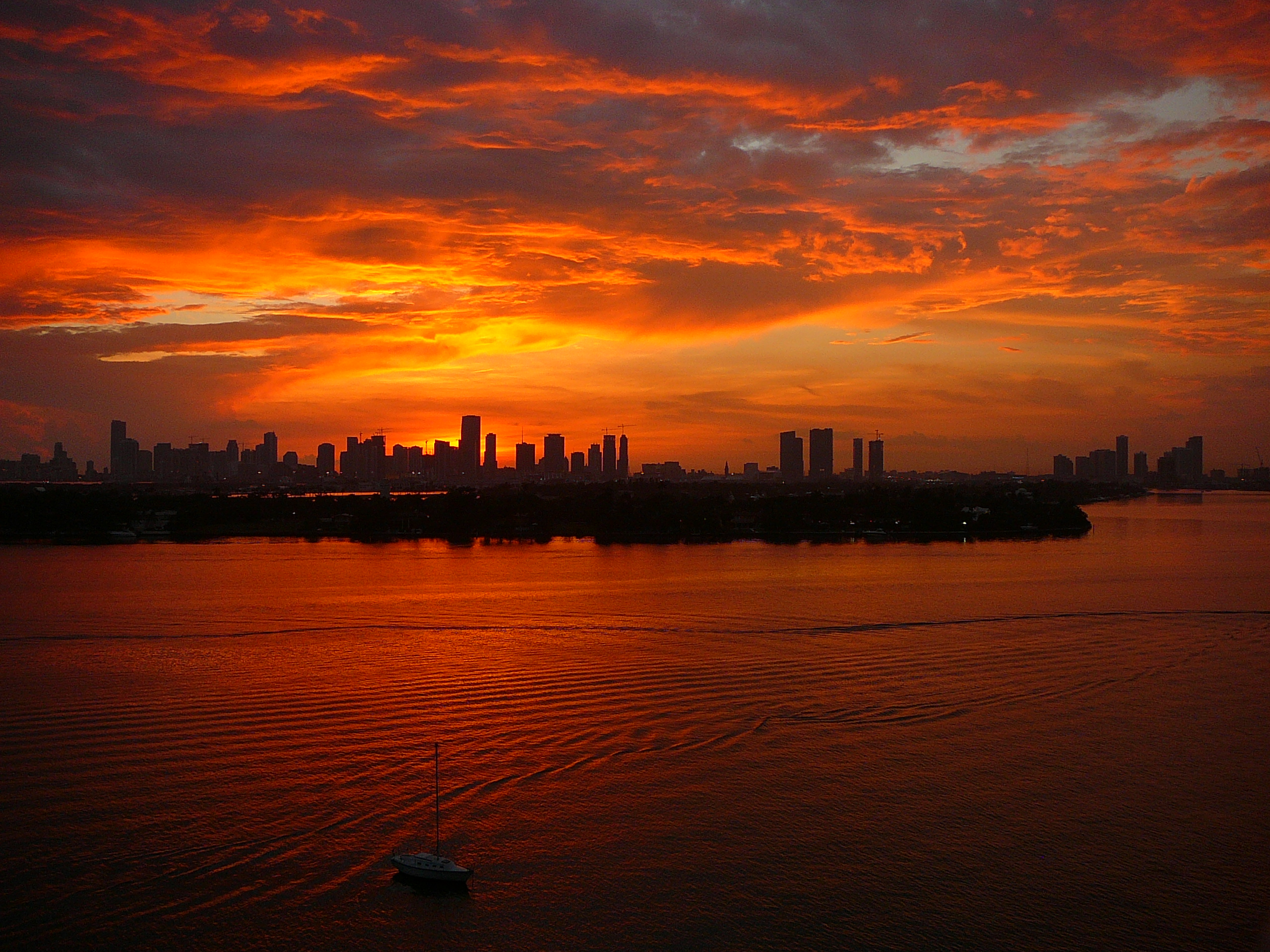 Digital photo taken by Marc Averette. Miami sunset 10/17/2007